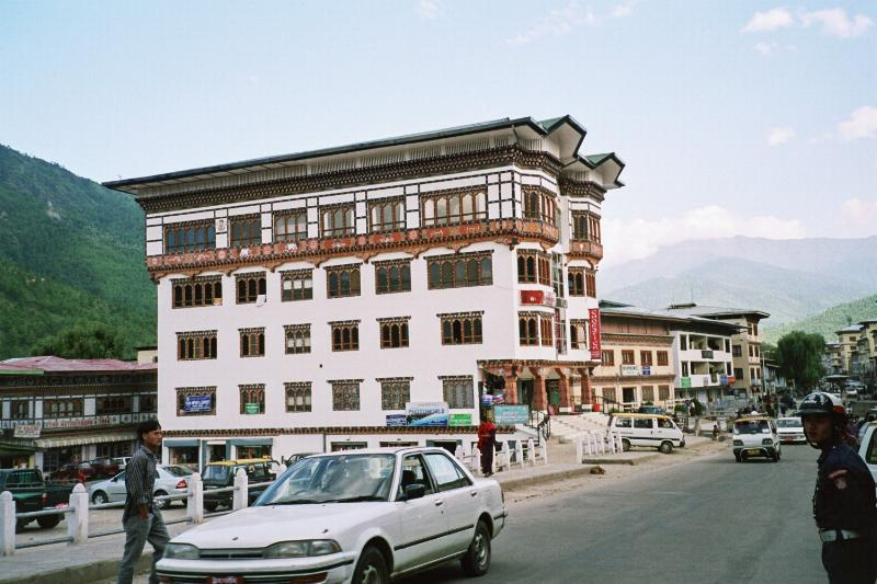 Streetlife in Thimphu, Bhutan